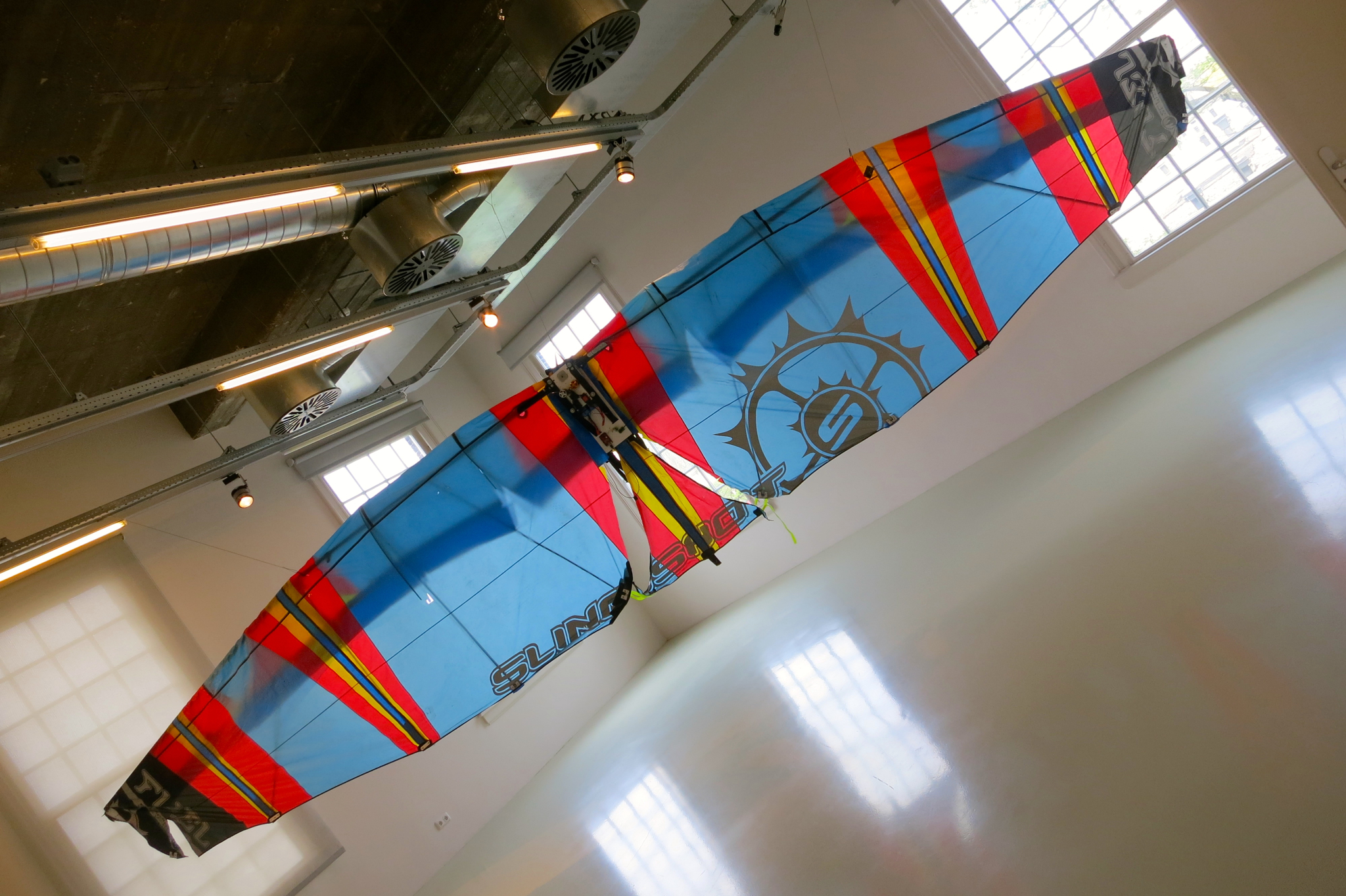 'Human Birdwings' (2012) van de Nederlandse kunstenaar Floris Kaayk (Tiel 1982). Winnaar van de Volkskrant Beeldende Kunstprijs 2014 Tentoonstelling: "Ik hou van Holland. Nederlandse kunst na 1945".